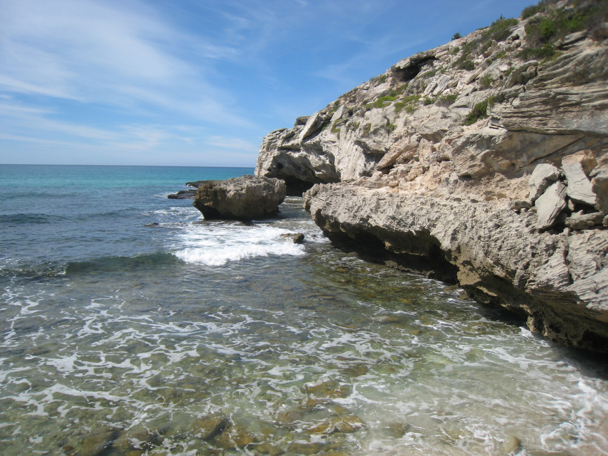 Arniston Caves—you can only get into them at low tide.